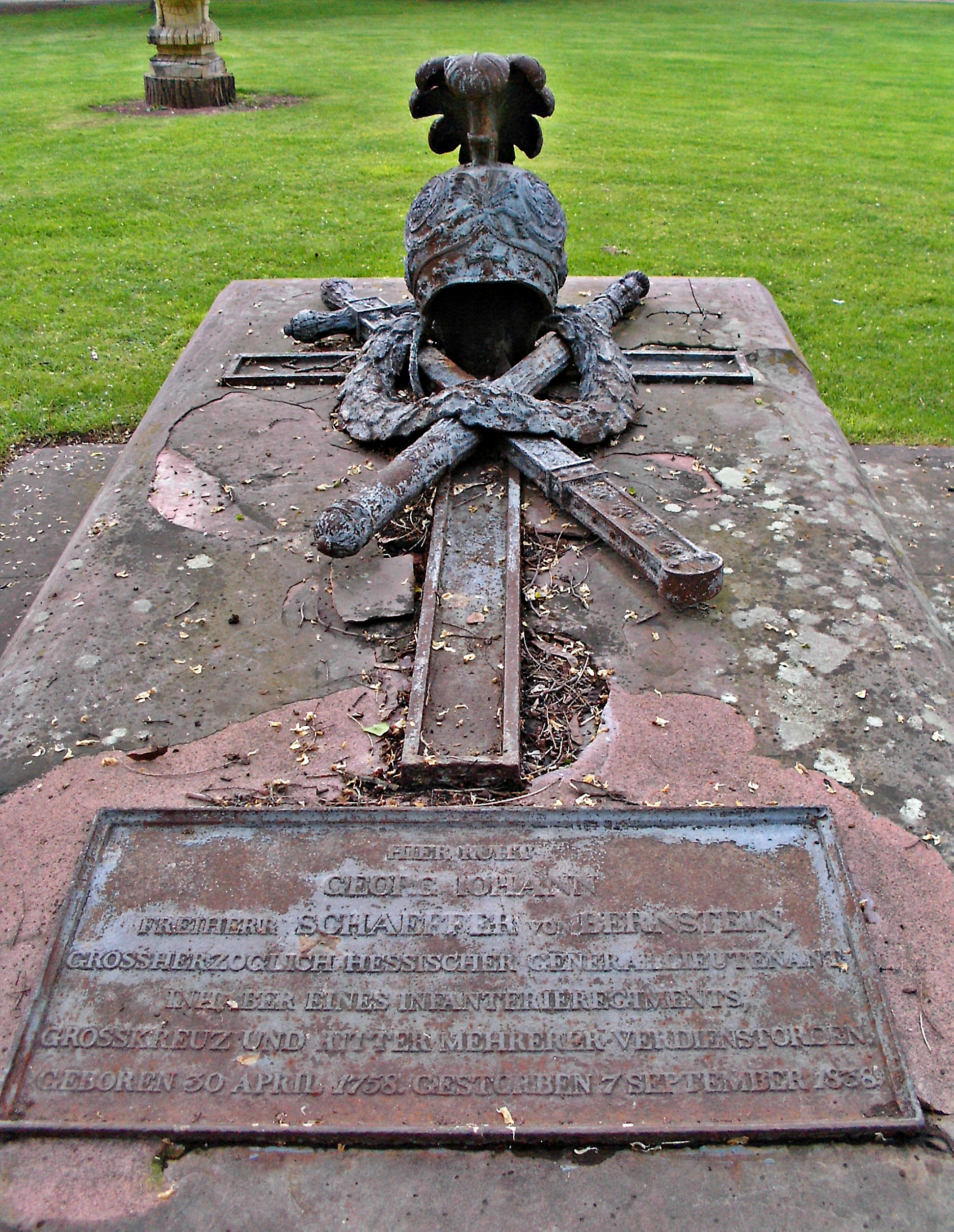 Grabmal General Johann Georg von Schäffer-Bernstein (1757-1838), alter Friedhof (Albert-Schulte-Park) Worms